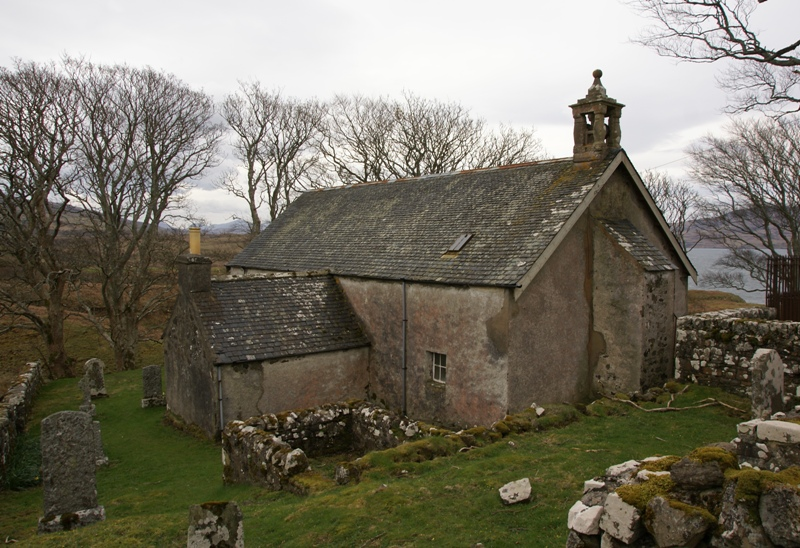 Kilninian Church, Mull, Argyll and Bute, Scotland. View from northwest.